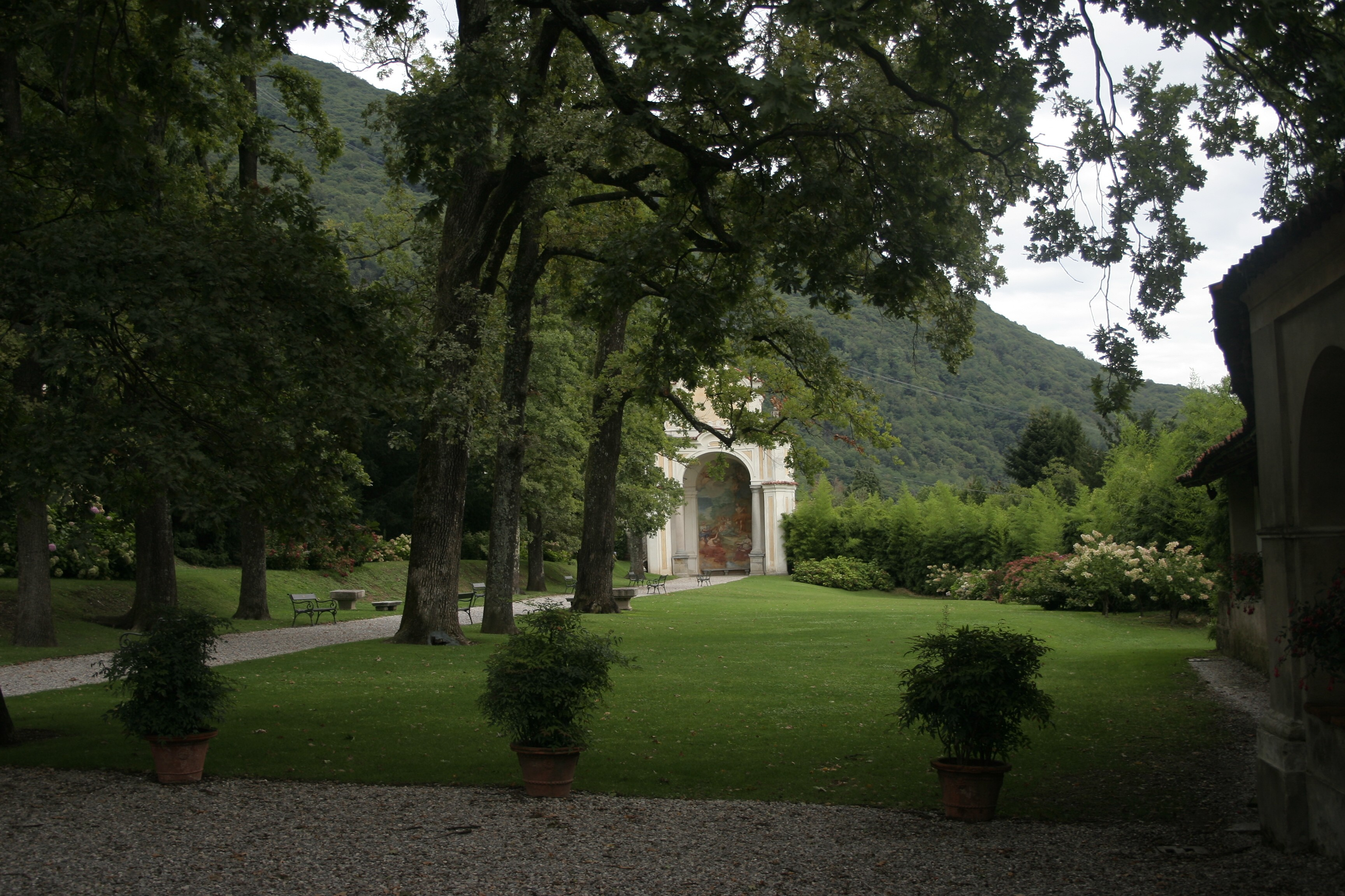 Villa Della Porta Bozzolo